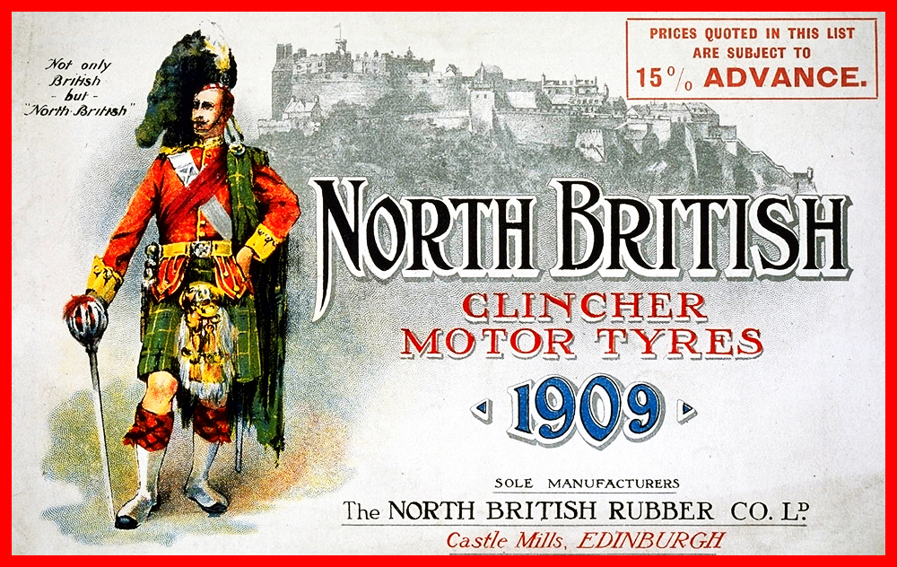 Advertisment for tyres made by the North British Rubber Company, Edinburgh, 1909